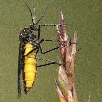 Picture taken in Commanster, Belgian High Ardennes . Species: Sciara analis